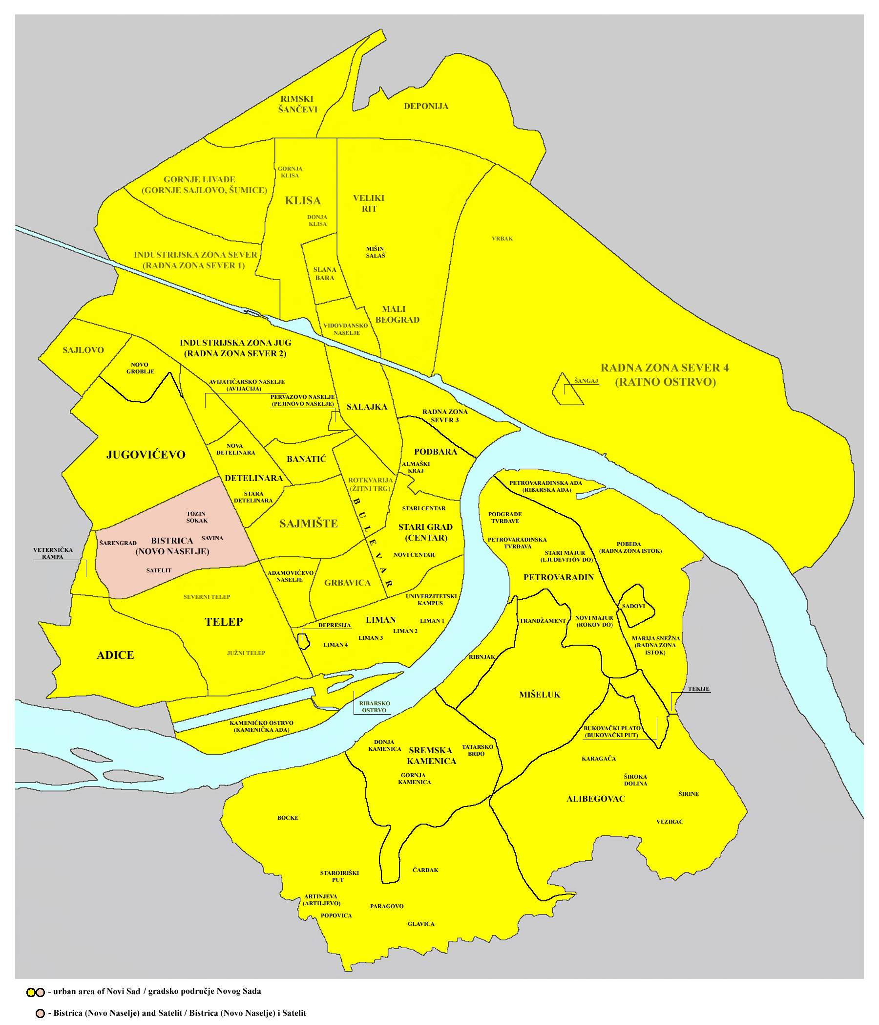 Location of Novo Naselje (Bistrica) and Satelit neighborhoods in Novi Sad.